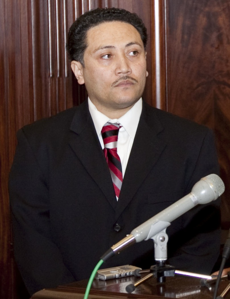 Wisconsin State Assemblyman Leon Young.